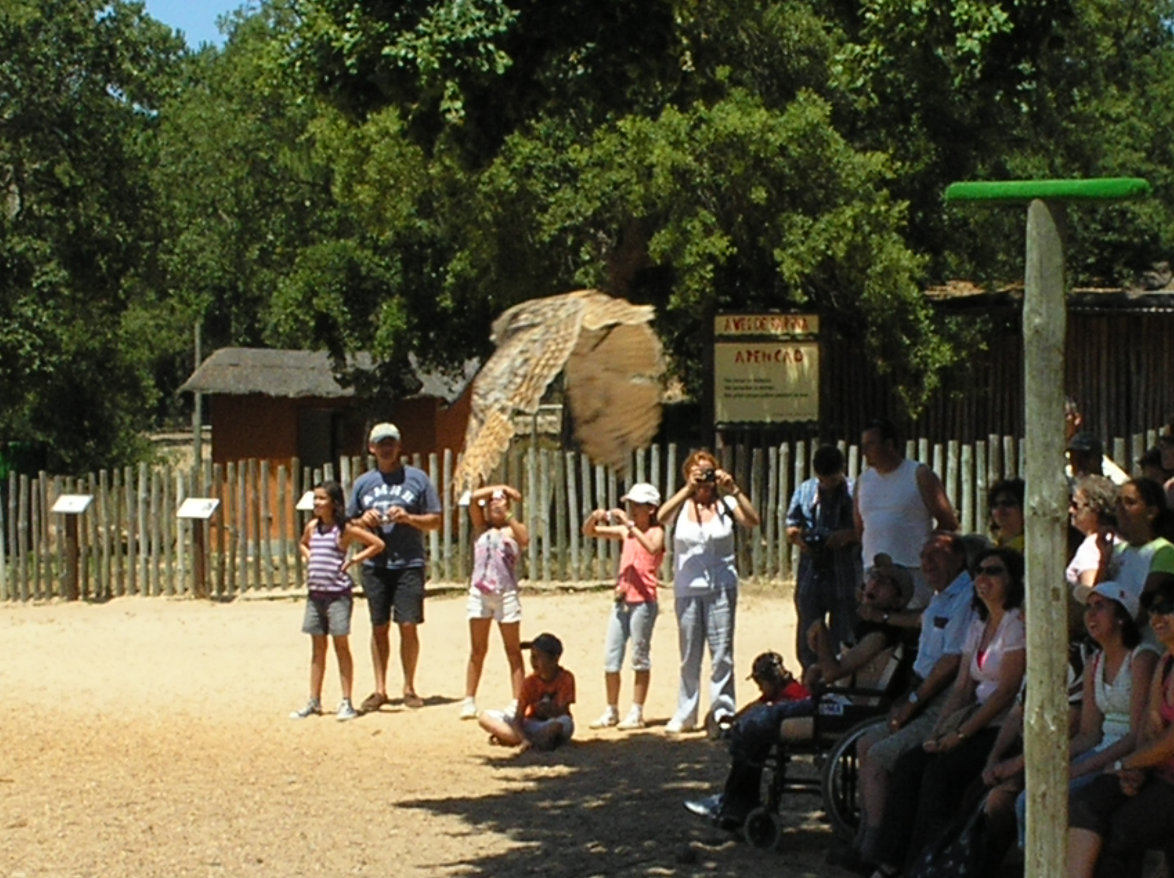 Birds at Badoca Safari Park, Portugal